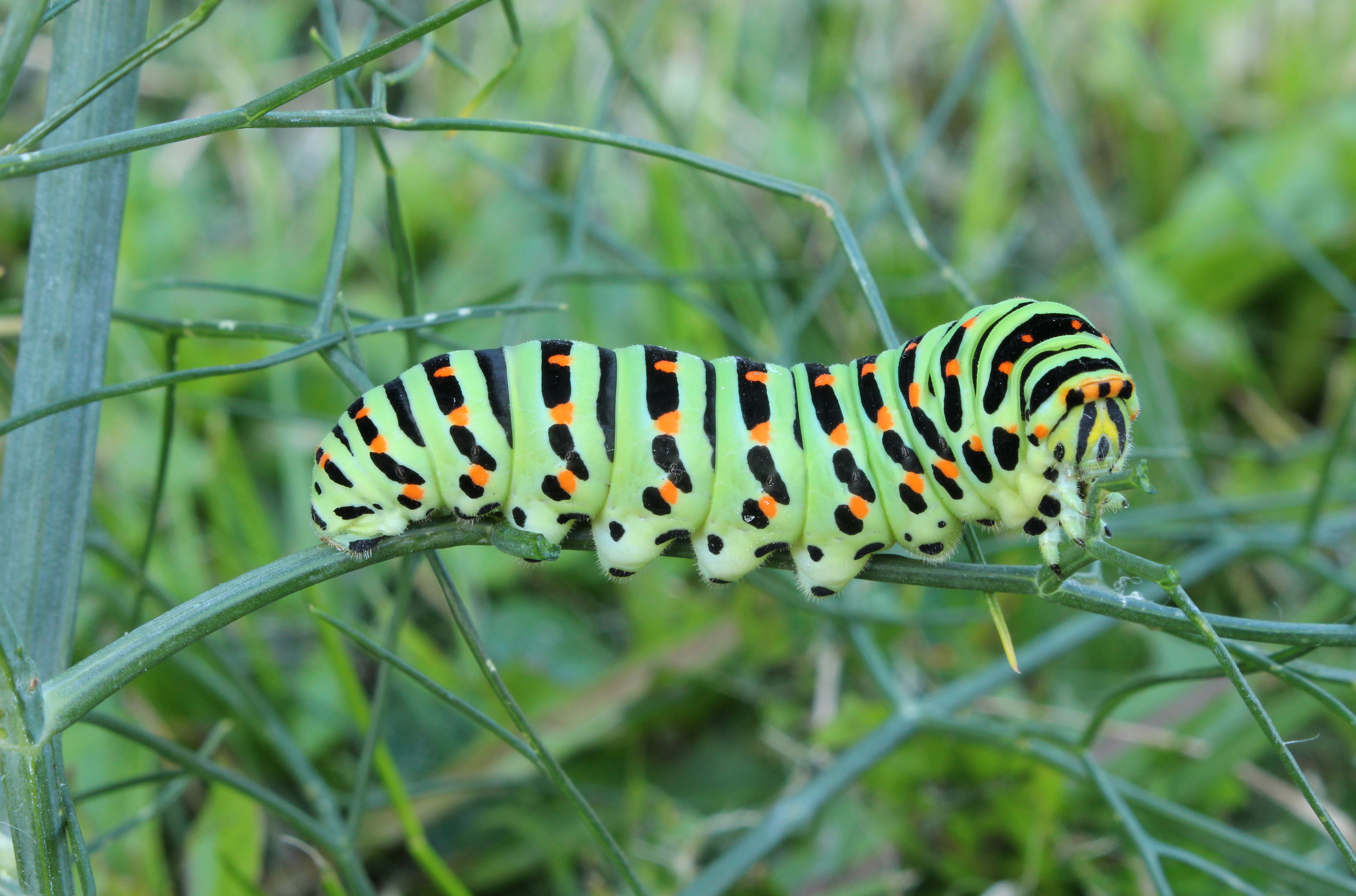 Caterpillar/Common Yellow Swallowtail or Swallowtai, Papilio machaon, Family: Papilionidae, Location: Germany, Ulm (private garden therefore no geotagging)